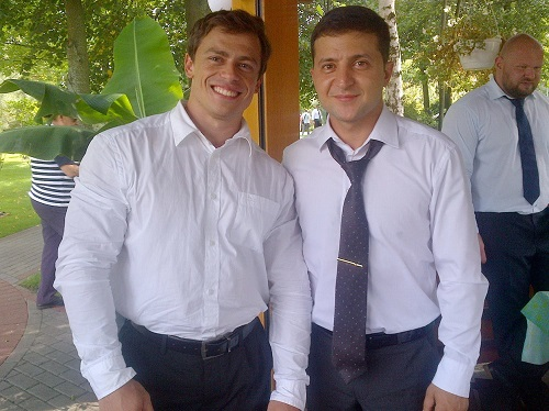 An illustration for an article